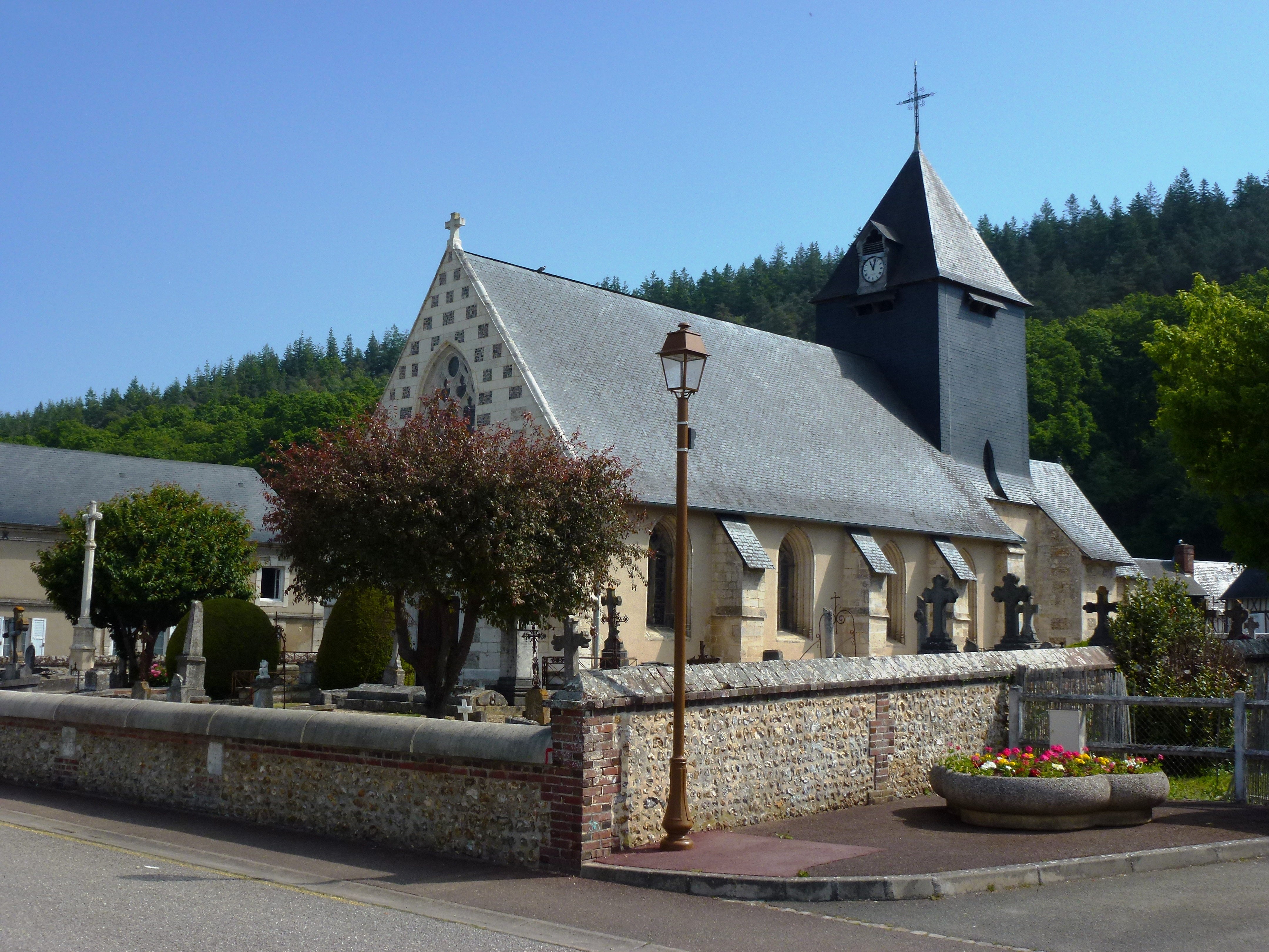 Nassandres (Eure, Fr) église Saint-André